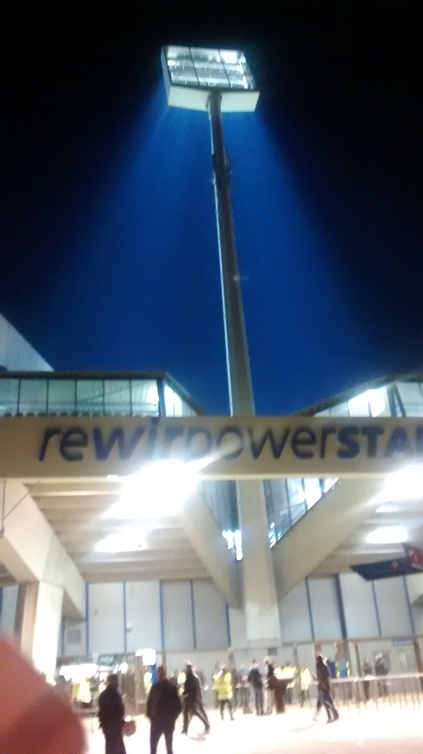 Floodlights at Ruhrstadion, Bochum